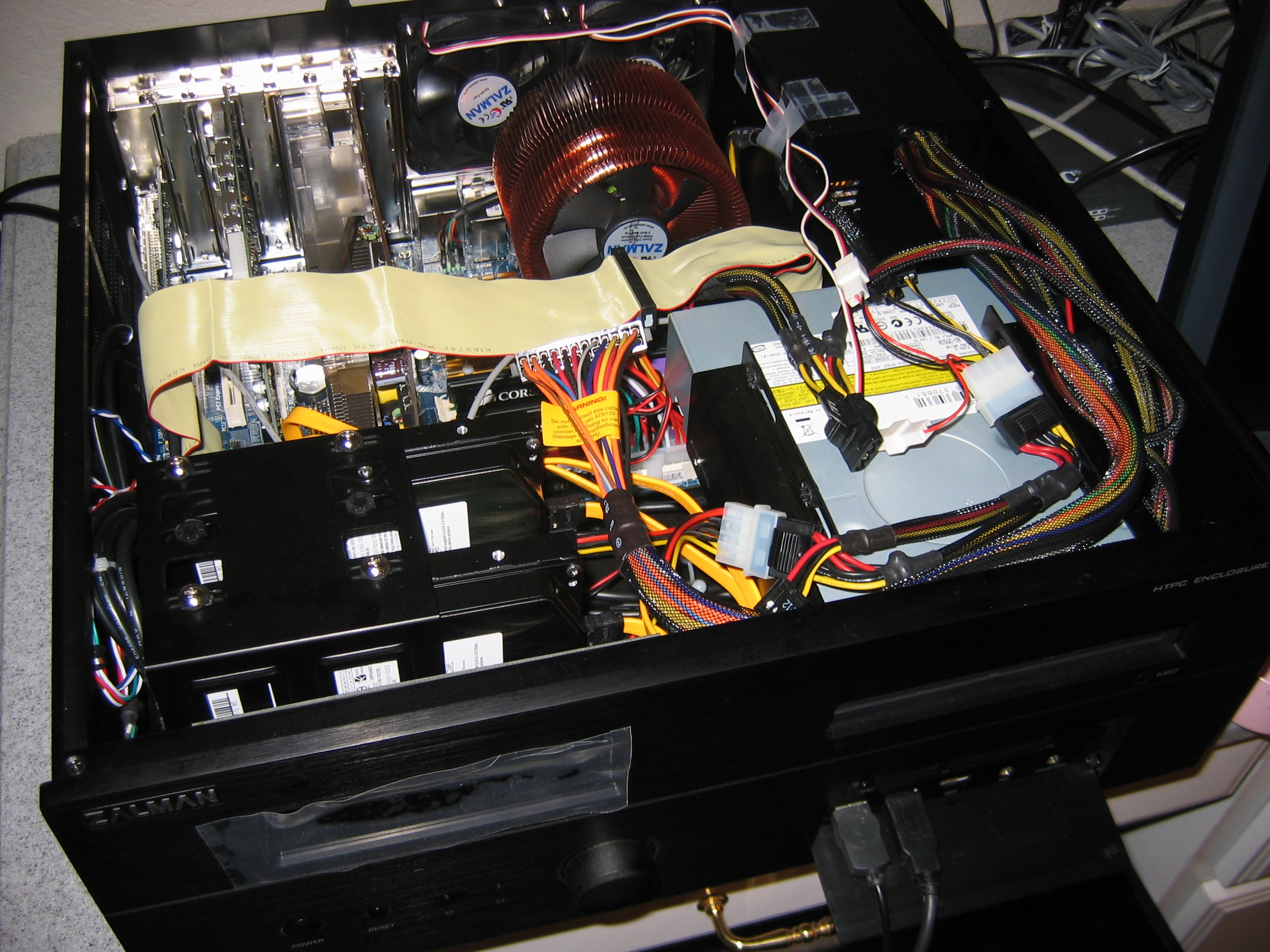 Home theater PC inside